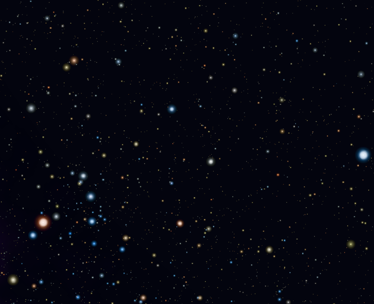 Image of Libra